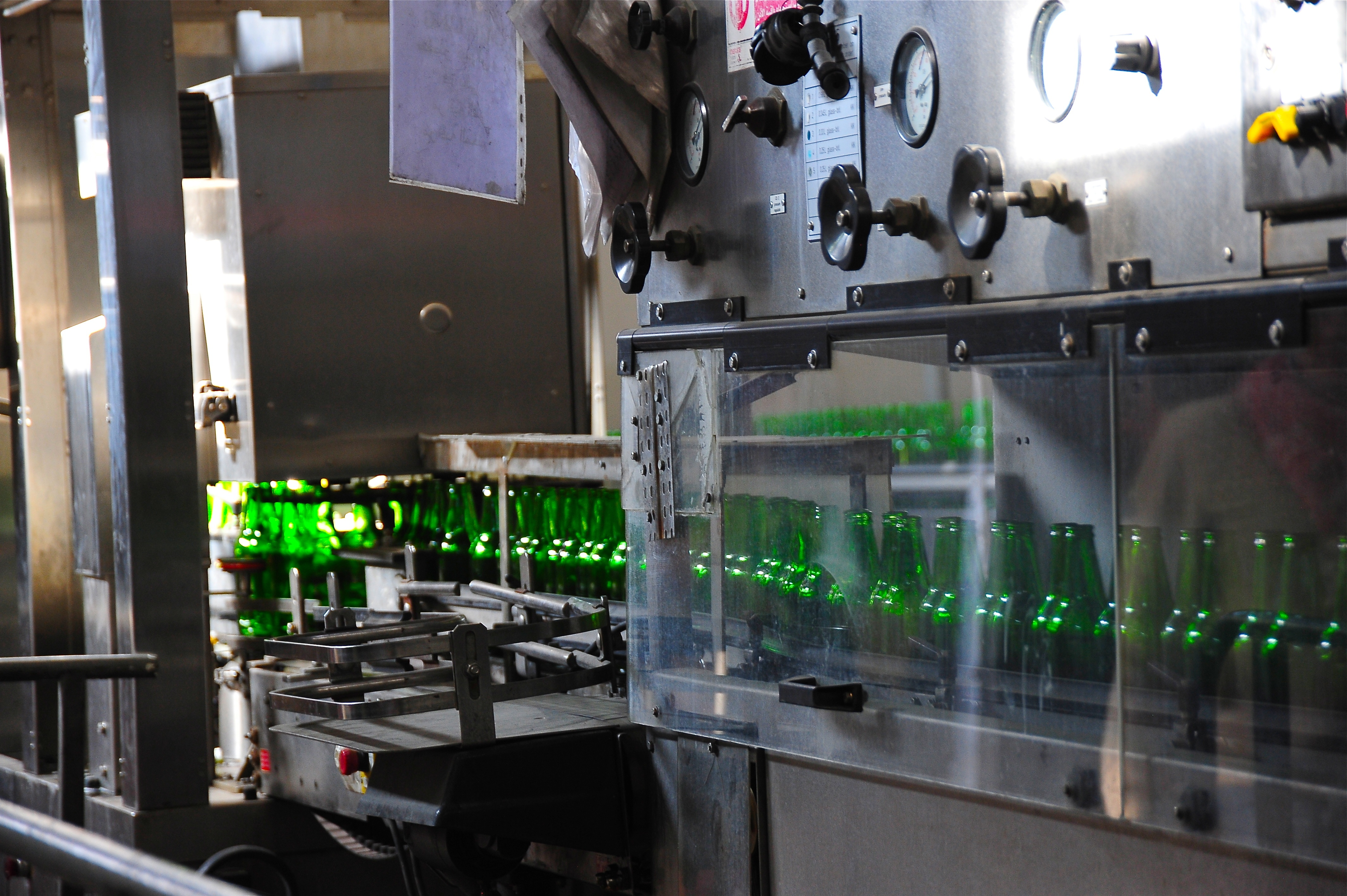 شركة مصانع البيرة العربية المساهمة المحدودة، وشركة مصانع البيرة الأردنية A Brewery in Jordan